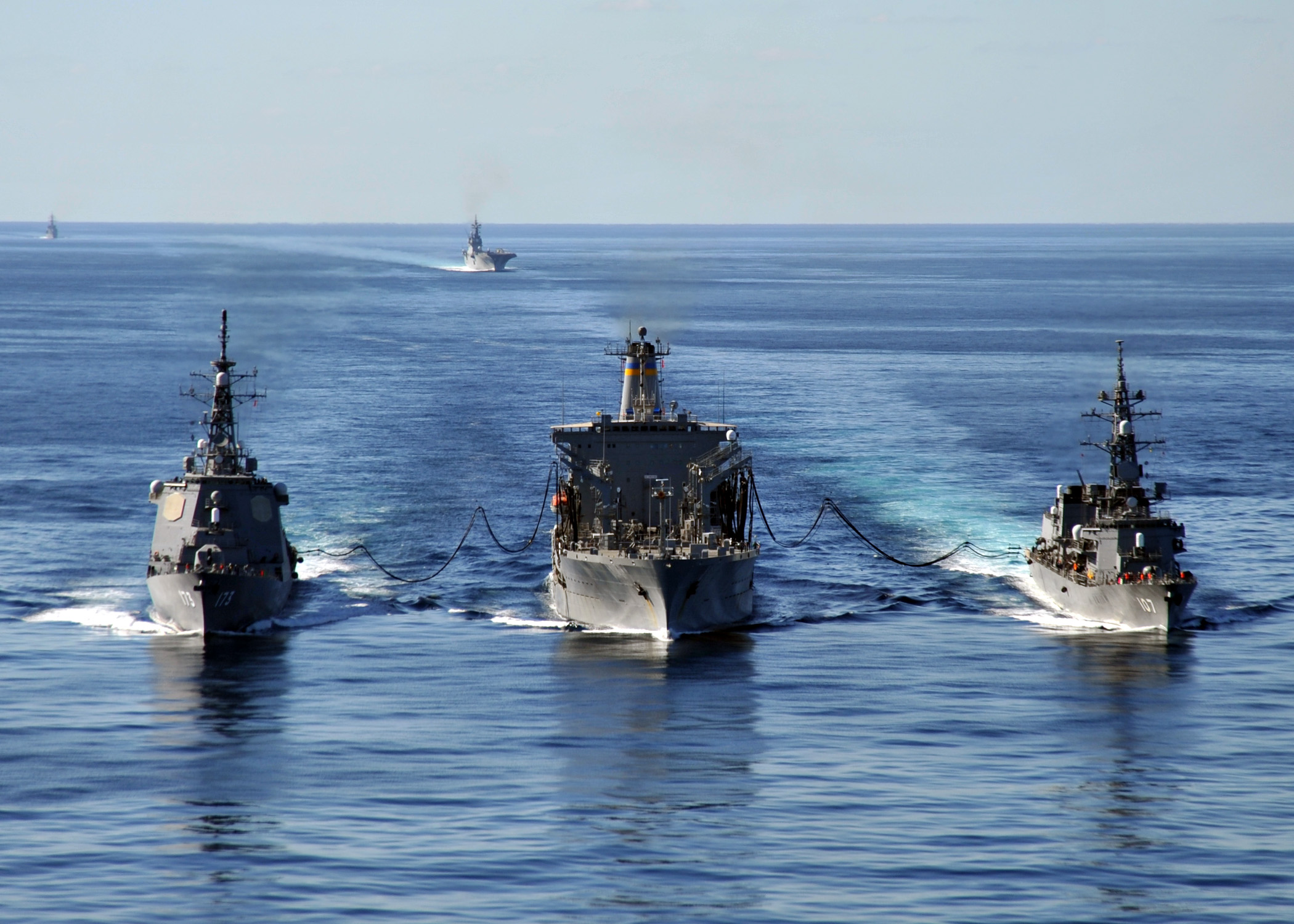 PACIFIC OCEAN (Dec. 5, 2010) The Military Sealift Command fleet replenishment oiler USNS Tippecanoe (T-AO 199) refuels the Japan Maritime Self-Defense Force destroyers Ikazuchi (DD-107) and Kongo (DDG-173) with the aircraft carrier USS George Washington (CVN 73) in the background. The George Washington Carrier Strike Group is participating in Keen Sword 2011 with the Japan Maritime Self-Defense Force through Dec. 10. (U.S. Navy photo by Mass Communication Specialist 3rd Class Charles Oki/Released)